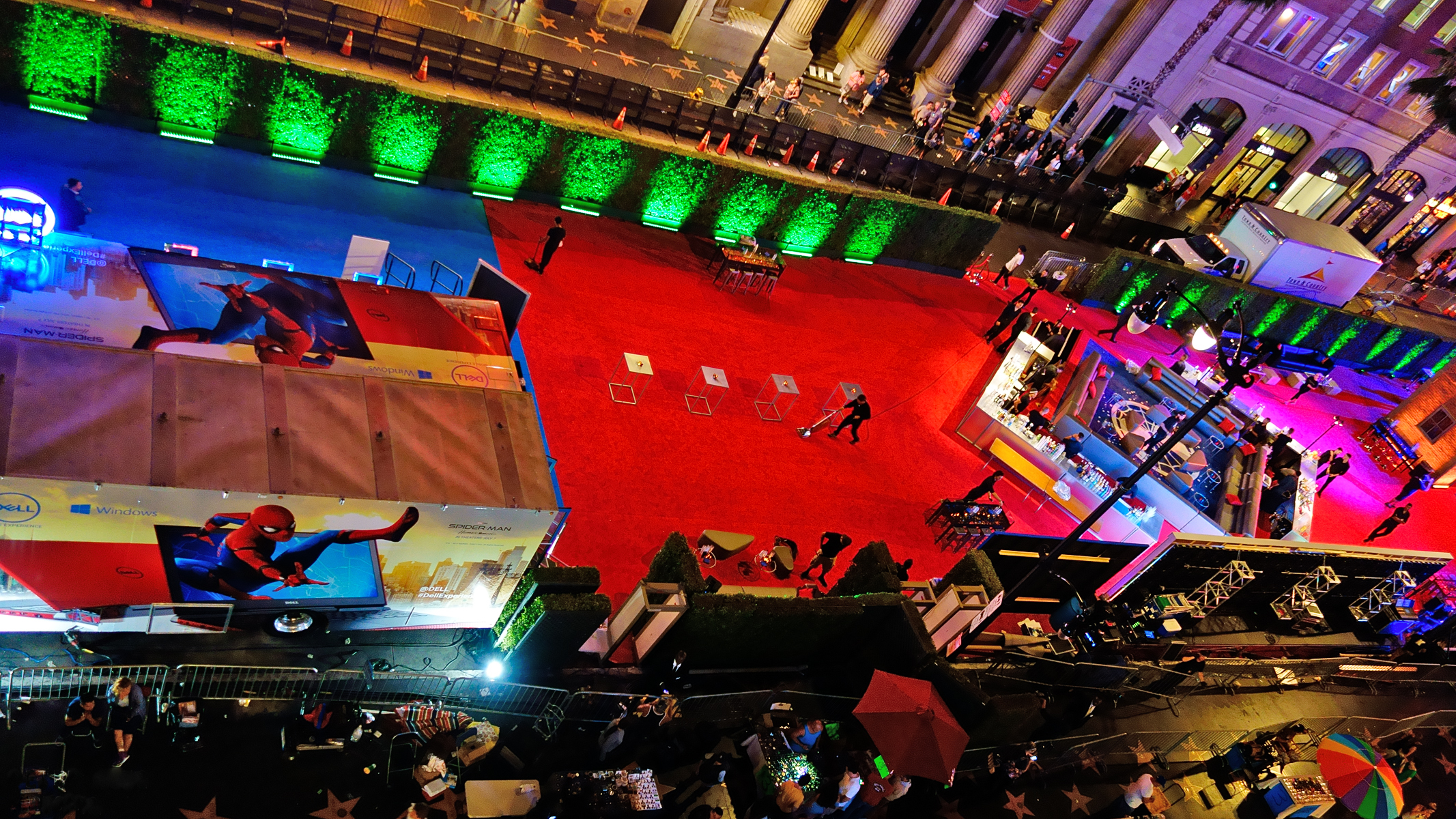 Crew preparing for the knockdown of the television set along Hollywood Boulevard.